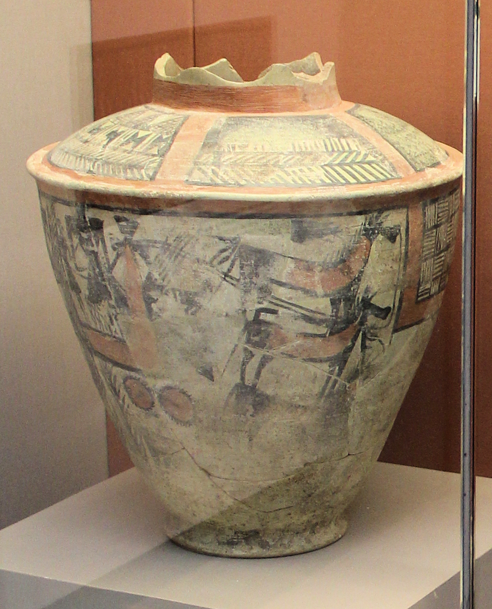 Painted ceramic jar, 2900-2600 BCE, Khafajah, Sumer EDII-III